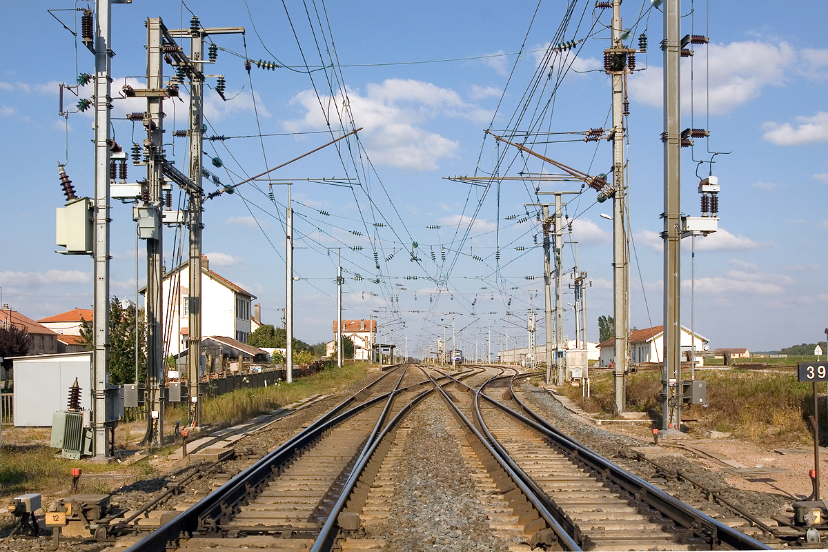 Merrey junction (French railway line Culmont-Chalindrey - Toul).